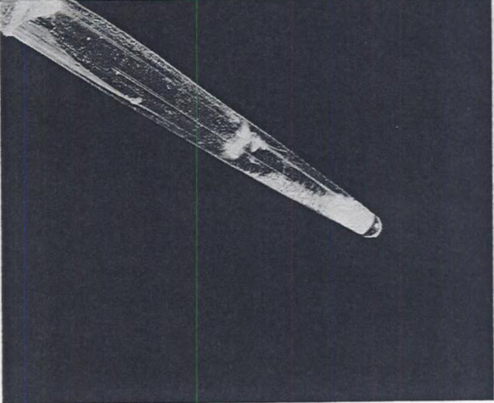 Curium hydroxide in bottom of microcentrifuge cone, fall 1947. (Magnified about 2-fold.) World's first isolated curium compound by L. B. Werner and I. Perlman at the University of California during the fall of 1947.